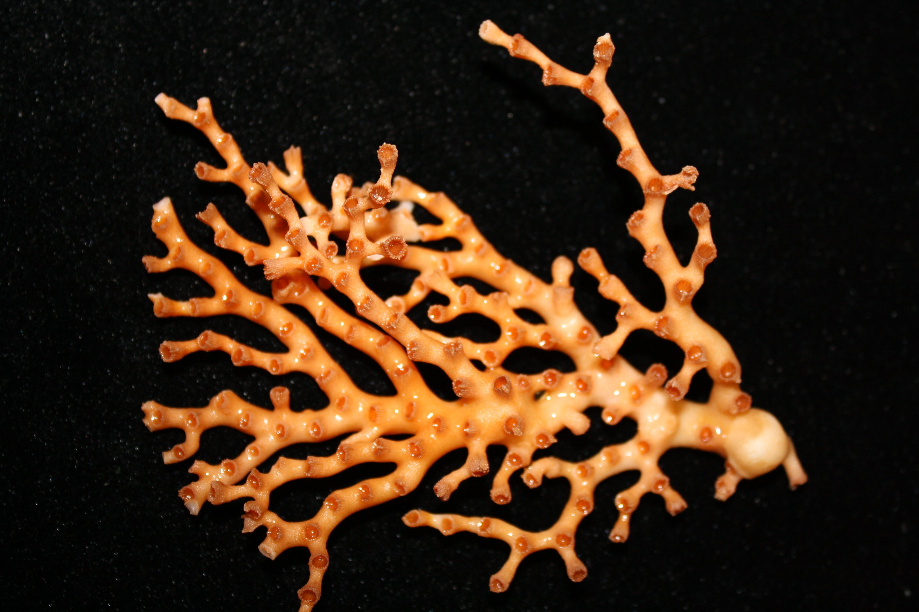 Reddish-orange lophelia pertusa. North Atlantic.